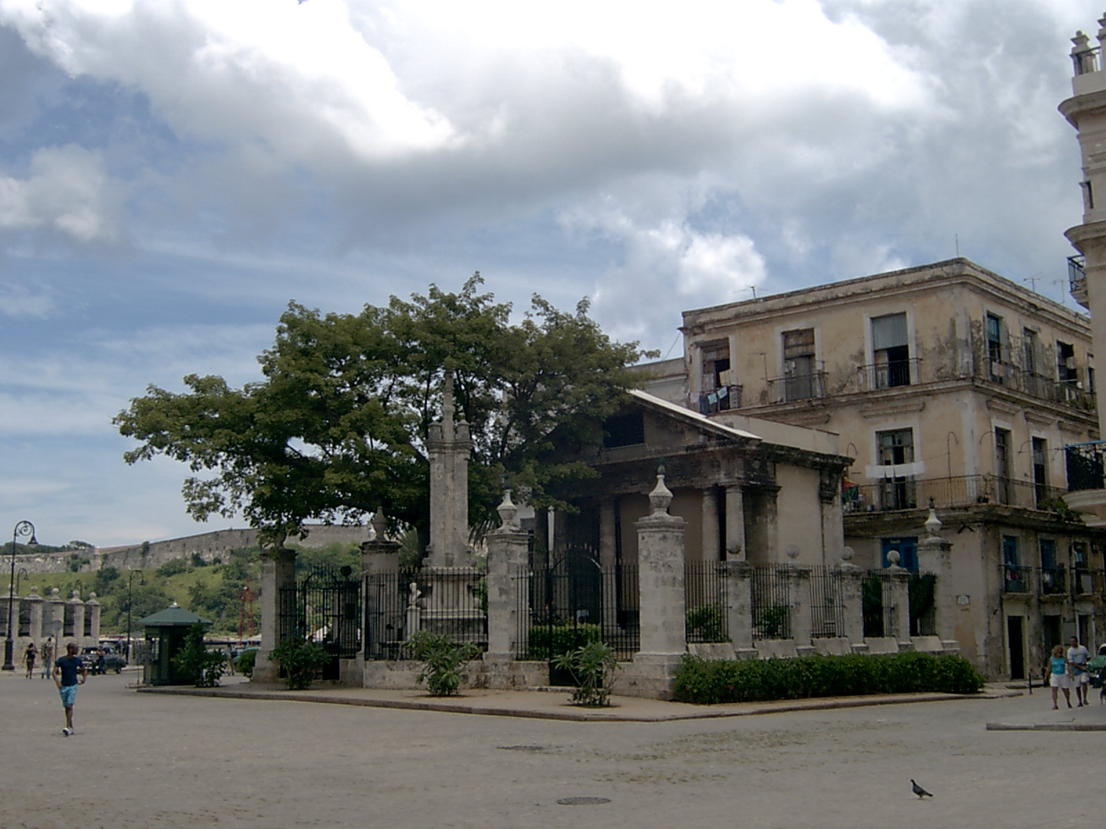 El Templete, the exact point where La Habana was founded, and it's sacred ceiba